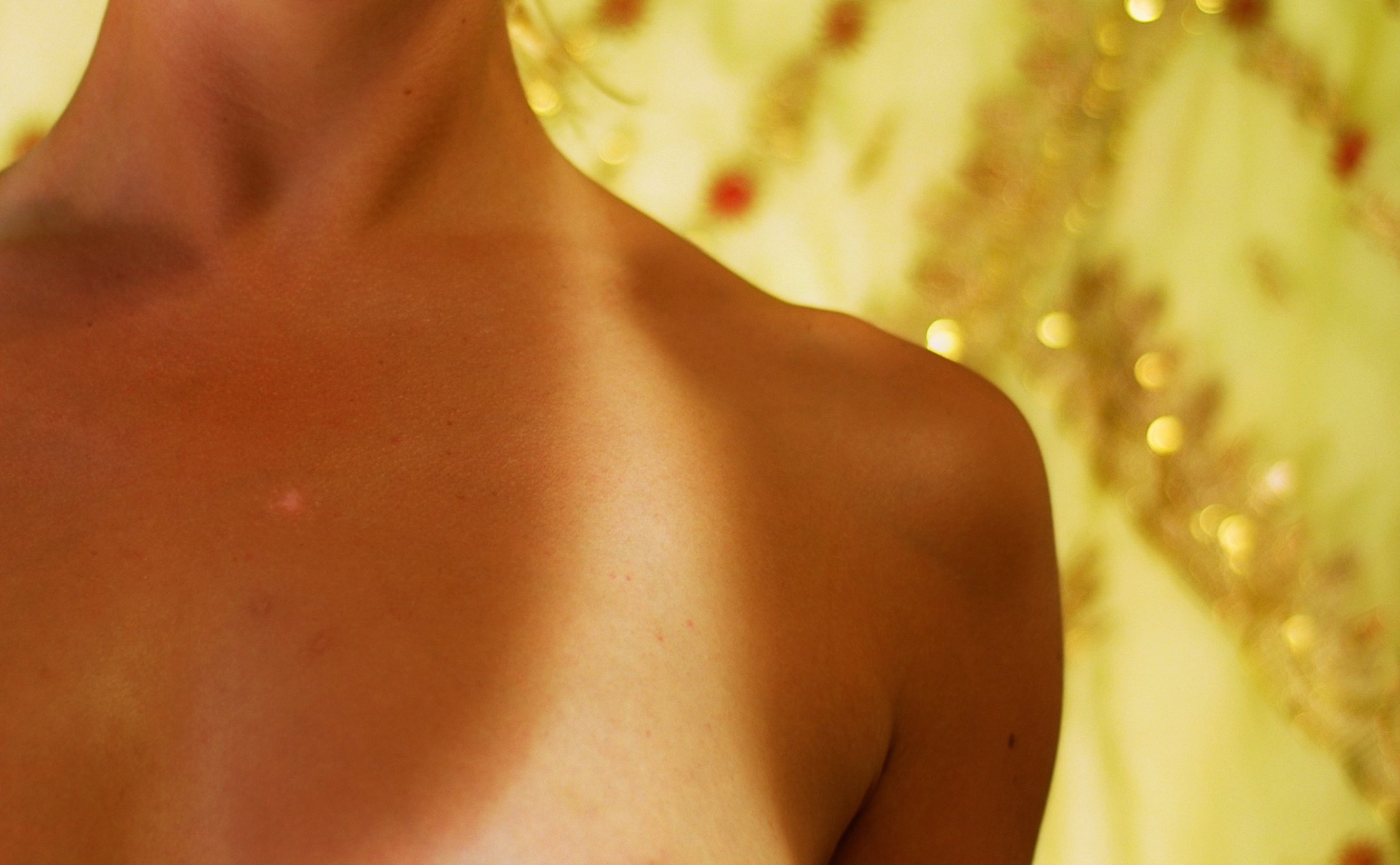 Tan lines on human female chest (265/365).